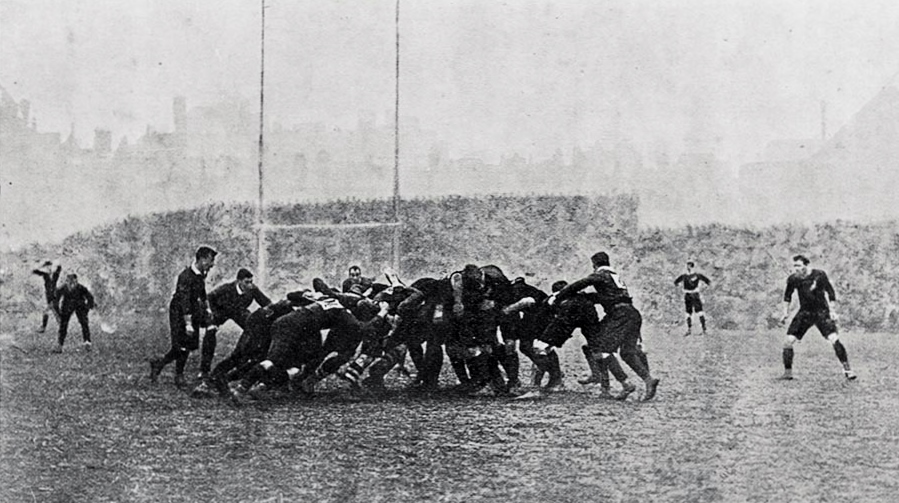 A scrum between Wales and New Zealand (the Original All Blacks) during their match in Cardiff in December 1905.